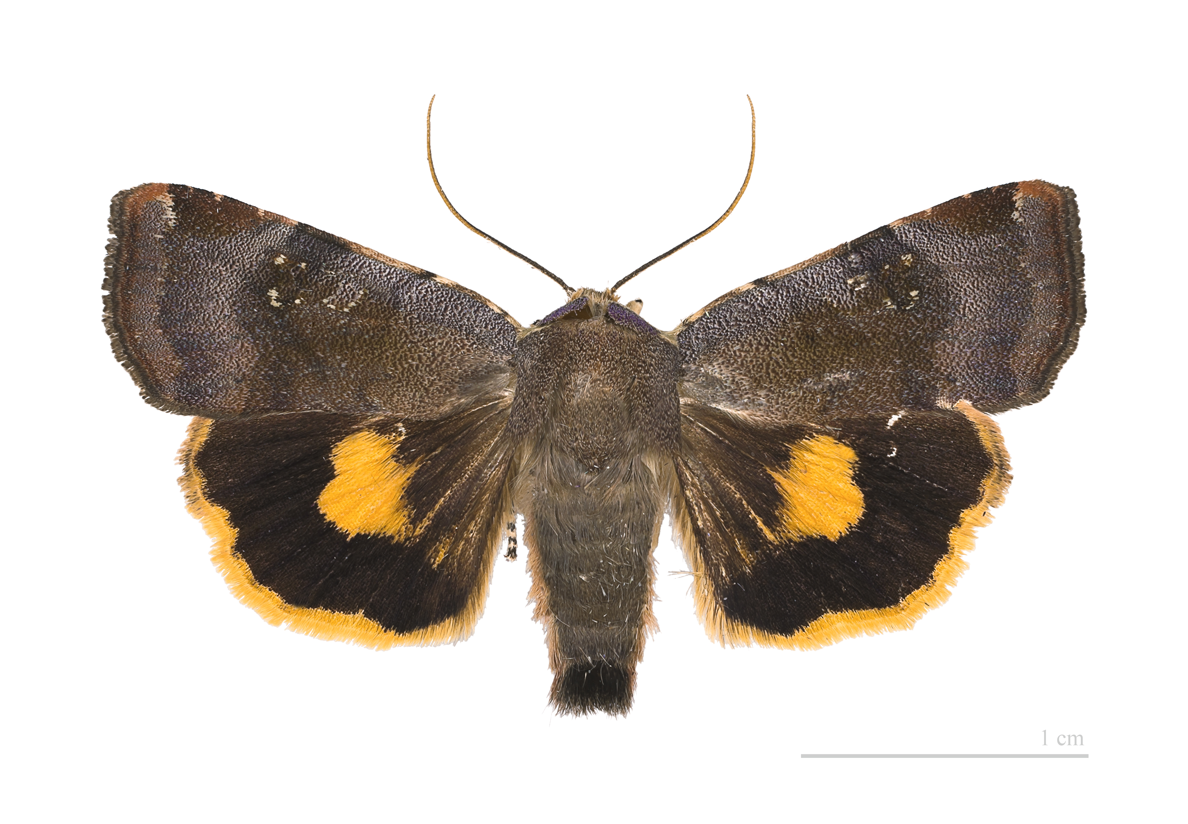 Lesser Broad-bordered Yellow Underwing - Dorsal side Locality: Lasparets, Sainte-Croix-Volvestre, Ariège, France